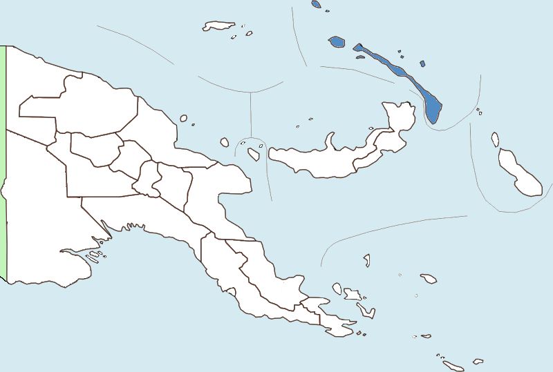 Map showing location of New Ireland Province in Papua New Guinea